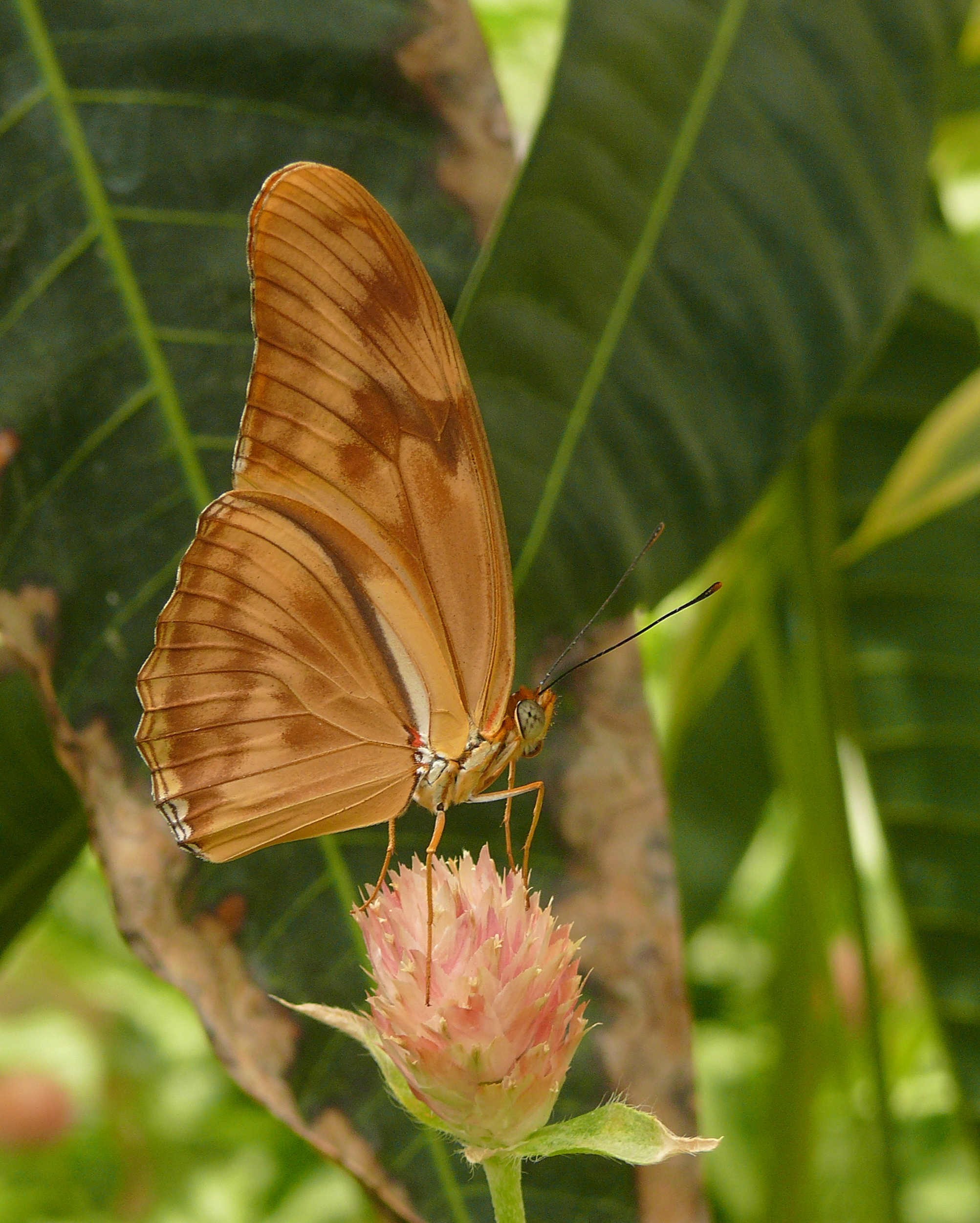 Julia butterfly - ventral view - taken at Krohn Conservatory.